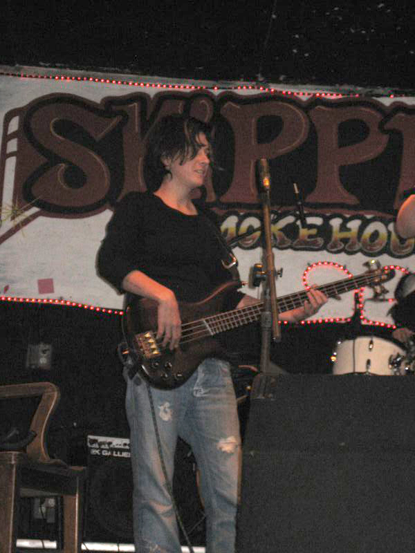 Musician Melissa Ferrick. Levels adjusted to correct for exposure.